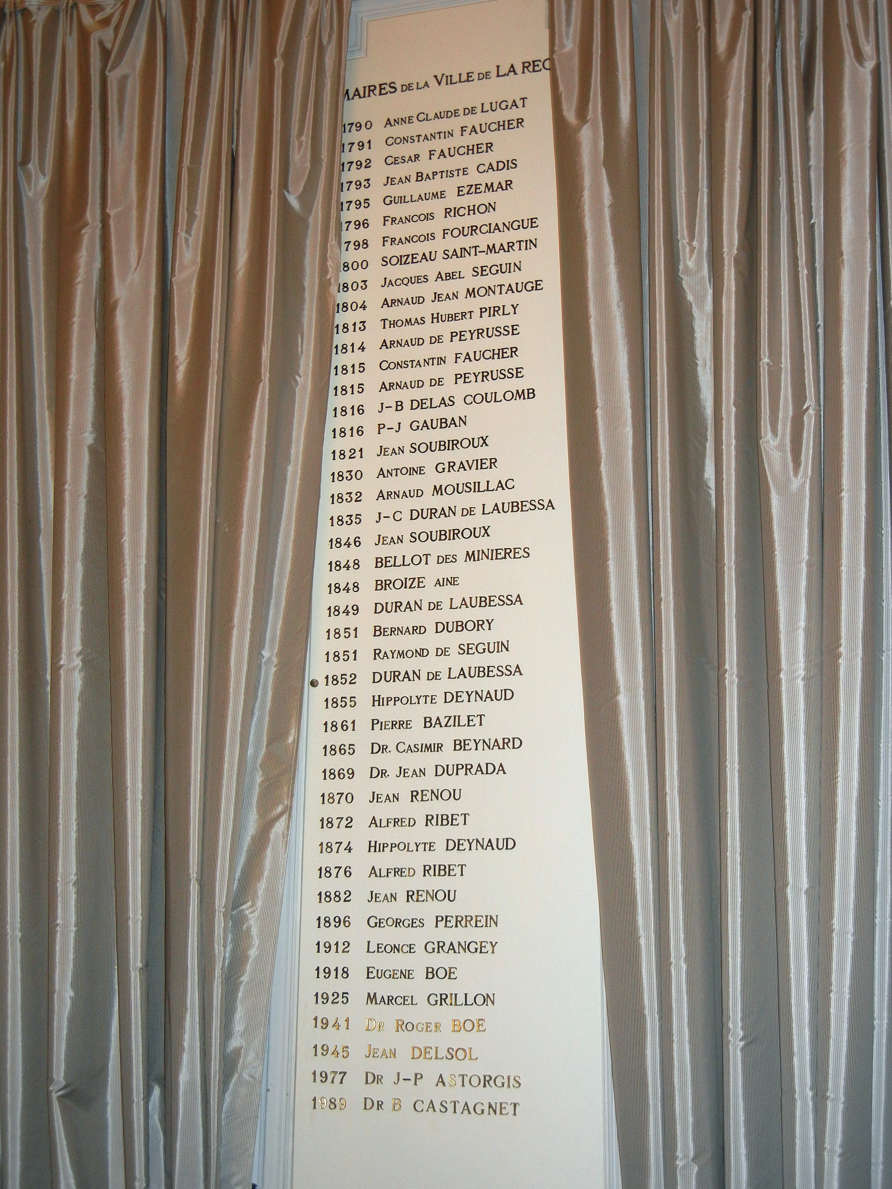 Mas De La Mathe La Réole, Gironde, list of mayors in the marriage hall